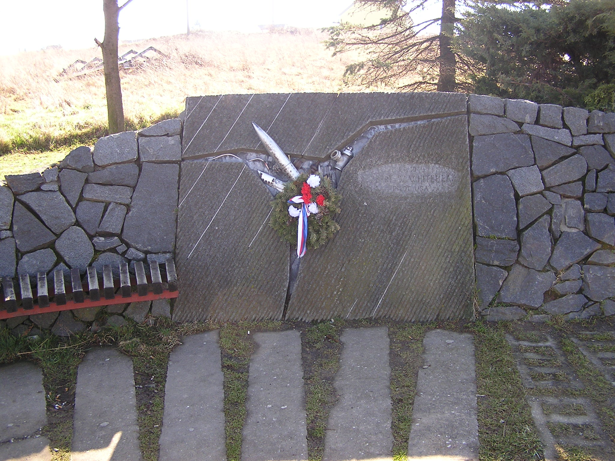 Memorial to 1/Lt Robert W. Whitehead from 37th Squadron, 14th Fighter Group, 15th USAAF who on April 11, 1945 perished in wreckage of his P-38 Lightning after dogfight with German FW 190 near Srubec, České Budějovice District, nowadays Czech Republic.